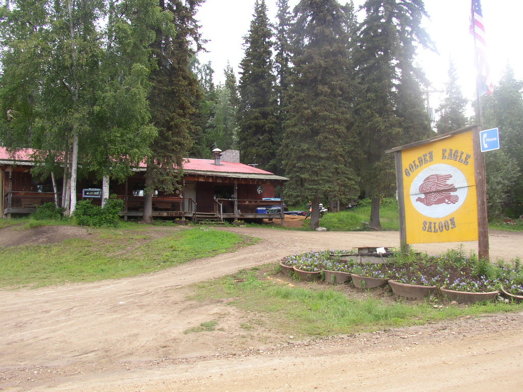 The Golden Eagle Saloon in Ester, Alaska, as seen in late summer